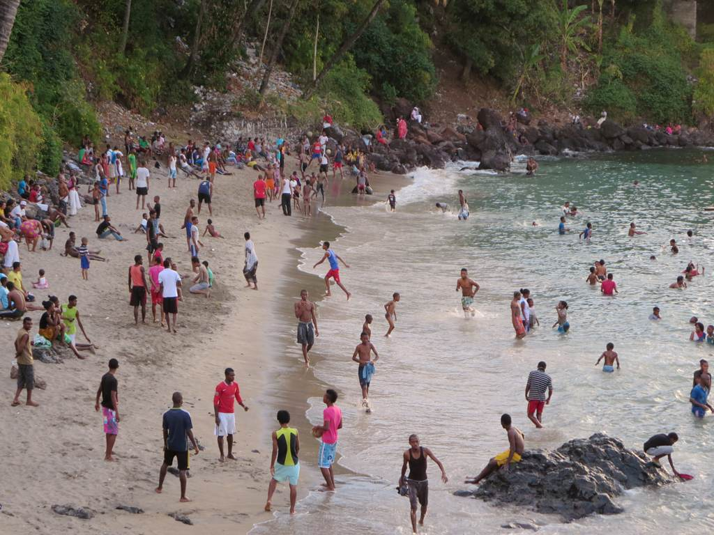 On Sunday afternoons local crowds flock to the beach at Hotel Al Amal in Mutsamudu on Anjouan Island, Union of the Comoros, Indian Ocean.